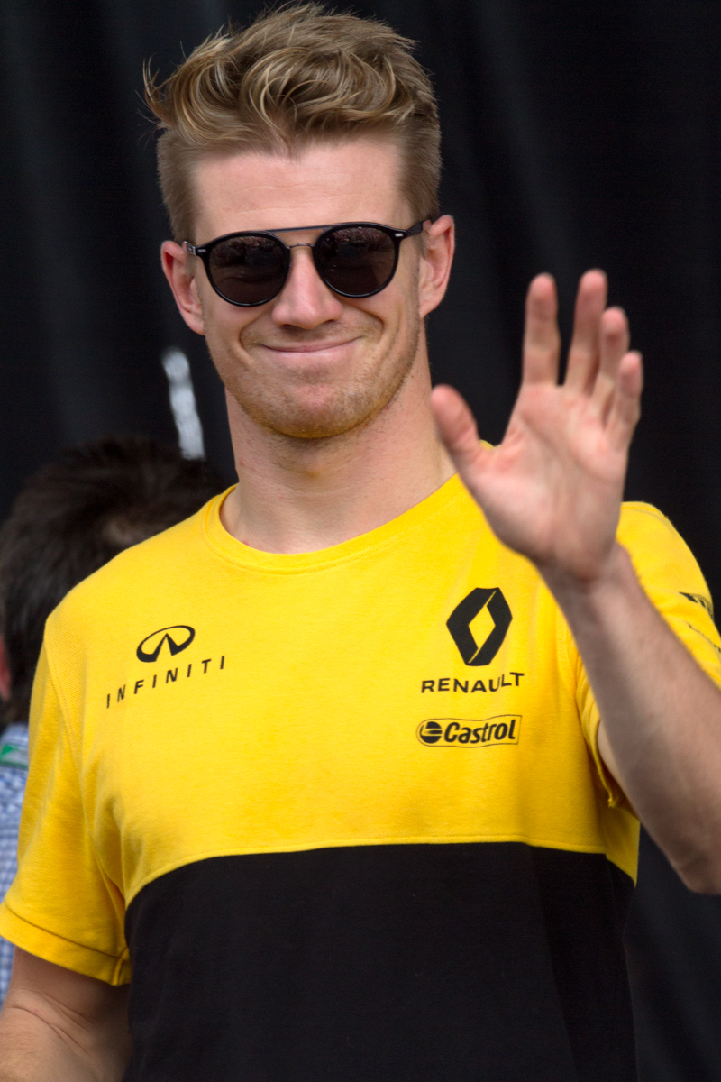 Formula One 2017 Rd.15 Malaysian GP: Nico Hülkenberg (Renault) at the autograph session